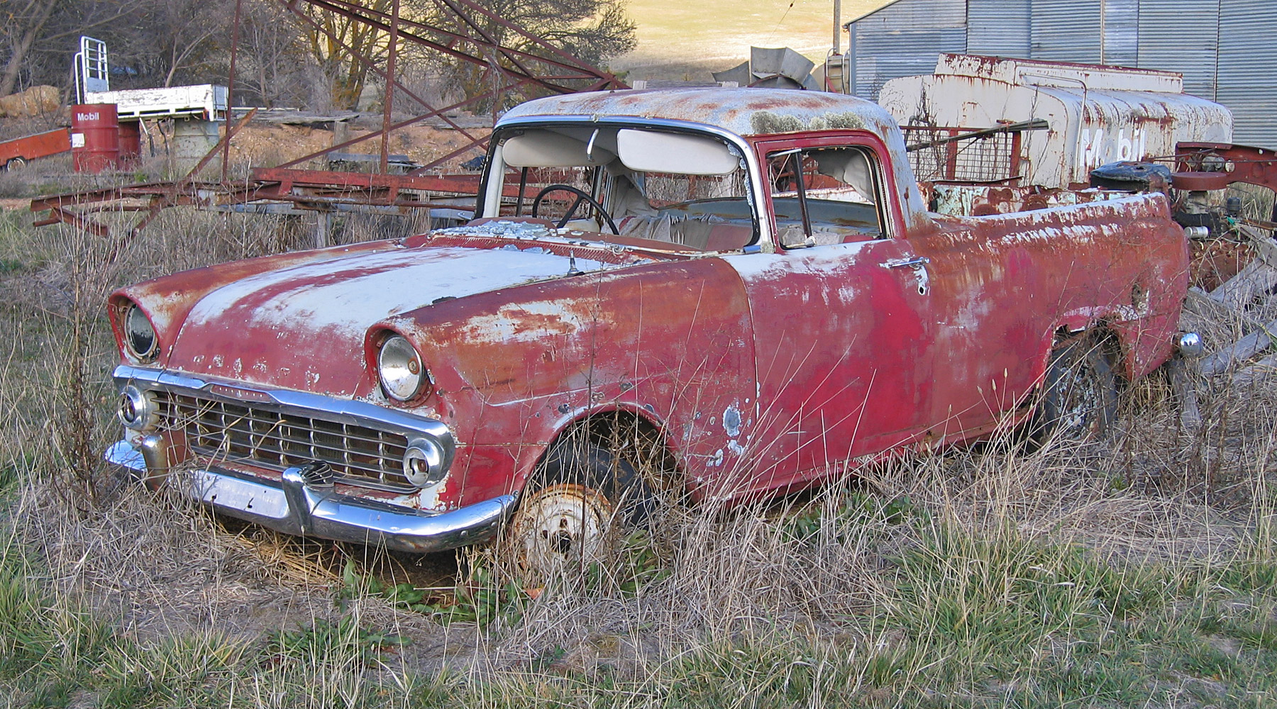 1961–1962 Holden EK utility wreck, photographed in Benambra, Victoria, Australia.